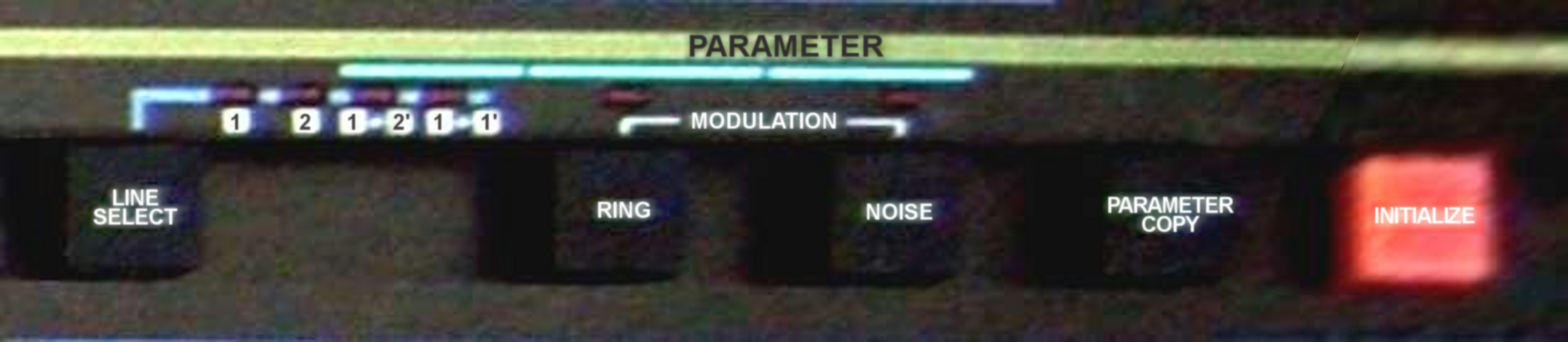 Casio CZ-1 Modulators (Ring Mod/Noise Mod) & Line Selector